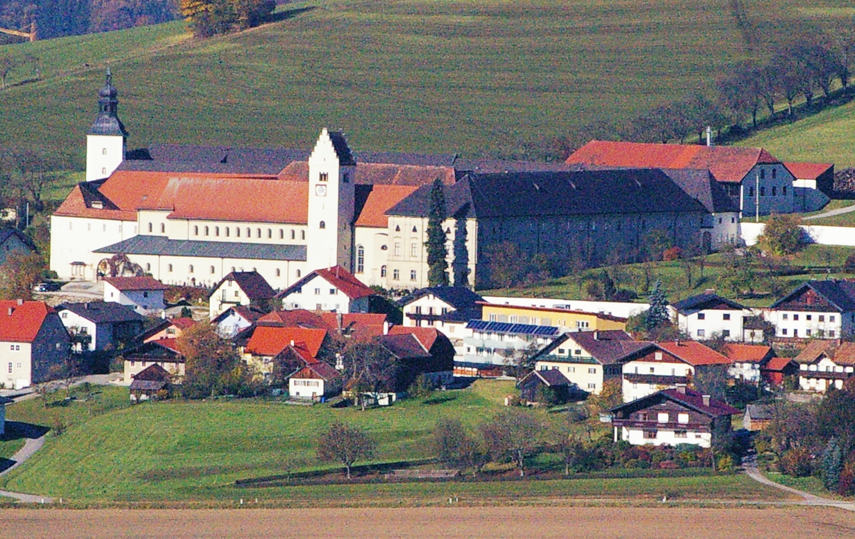 Michaelbeuern abbey